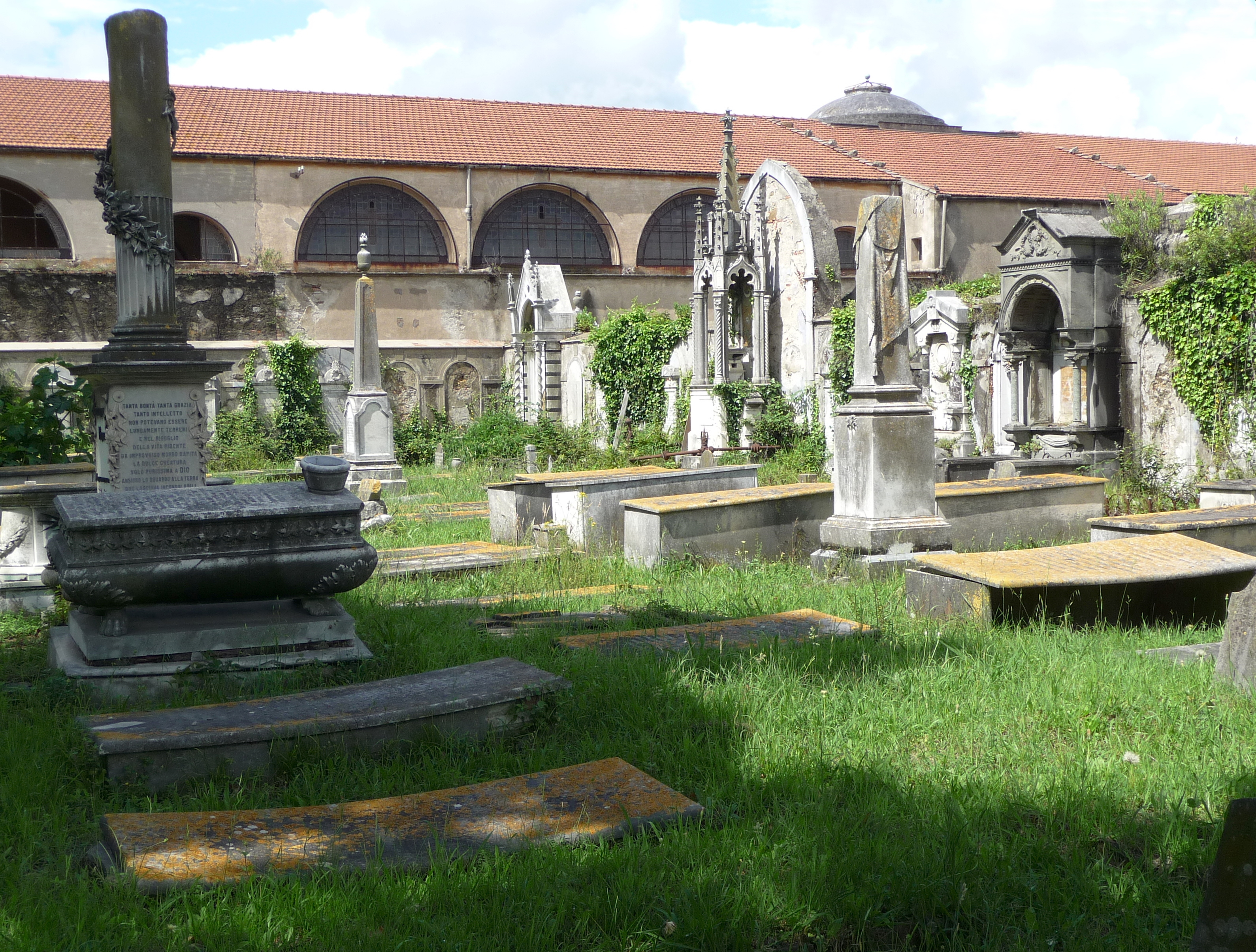 Jewish cemetery - Cimitero ebraico "dei Lupi", Livorno, Italy